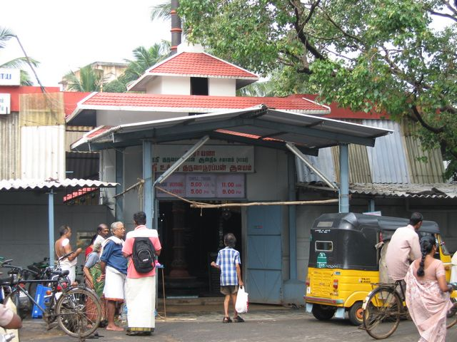 The Guruvayurappan Temple at Nanganallur, Chennai. Own work, Licensed as attribution, sharealike.